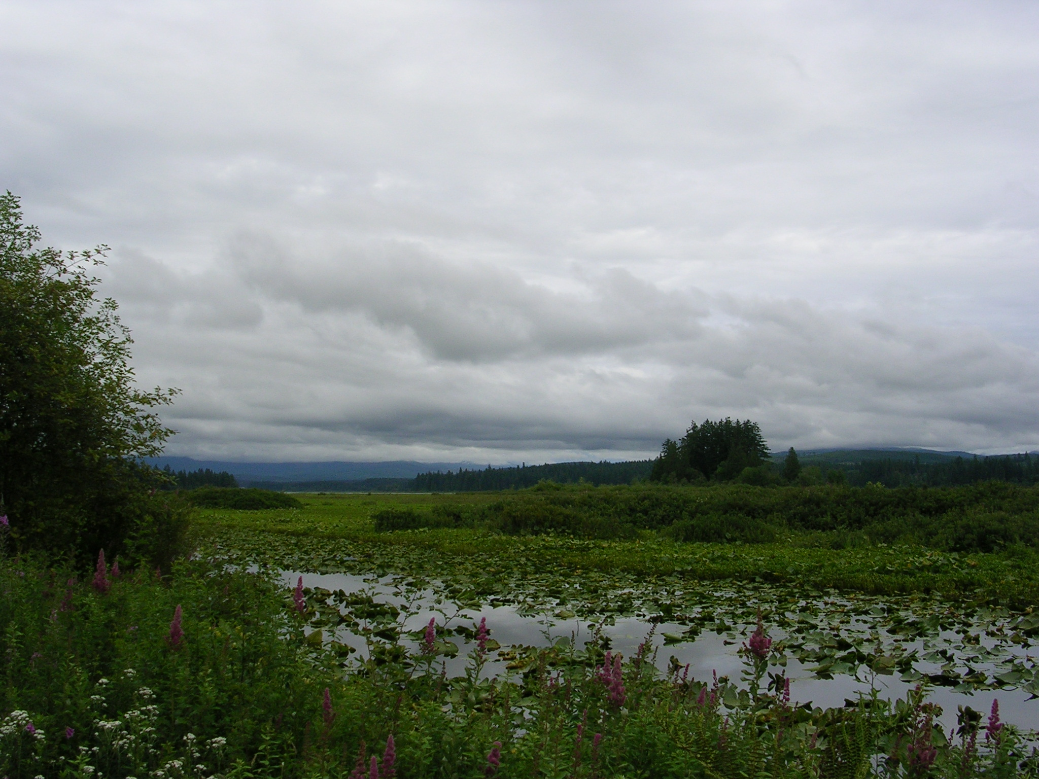 Marsh land at Silver Lake, Washington, USA